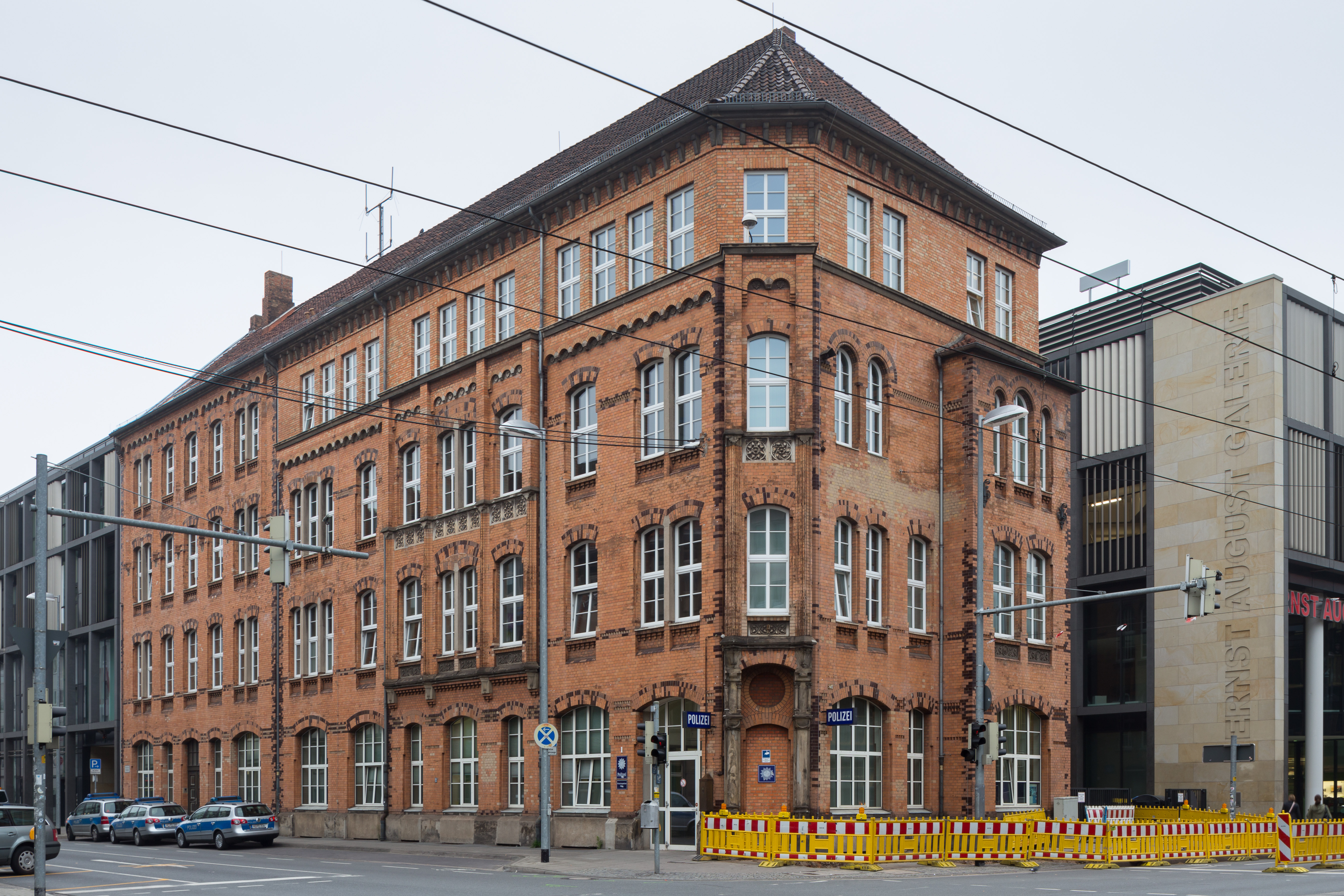 Neo-Gothic office building used by the police located at Herschelstrasse no.1 and Kurt-Schuhmacher-Strasse in Mitte quarter of Hannover, Germany.